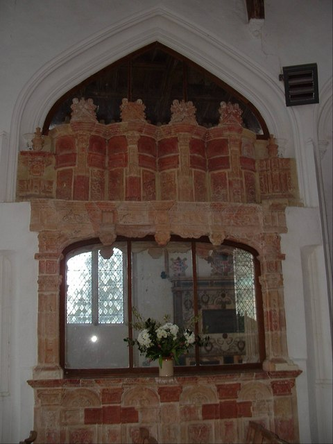 Terracotta Bedingfeld Tomb, Oxborough Church